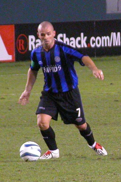 John Spencer at the Home Depot Center